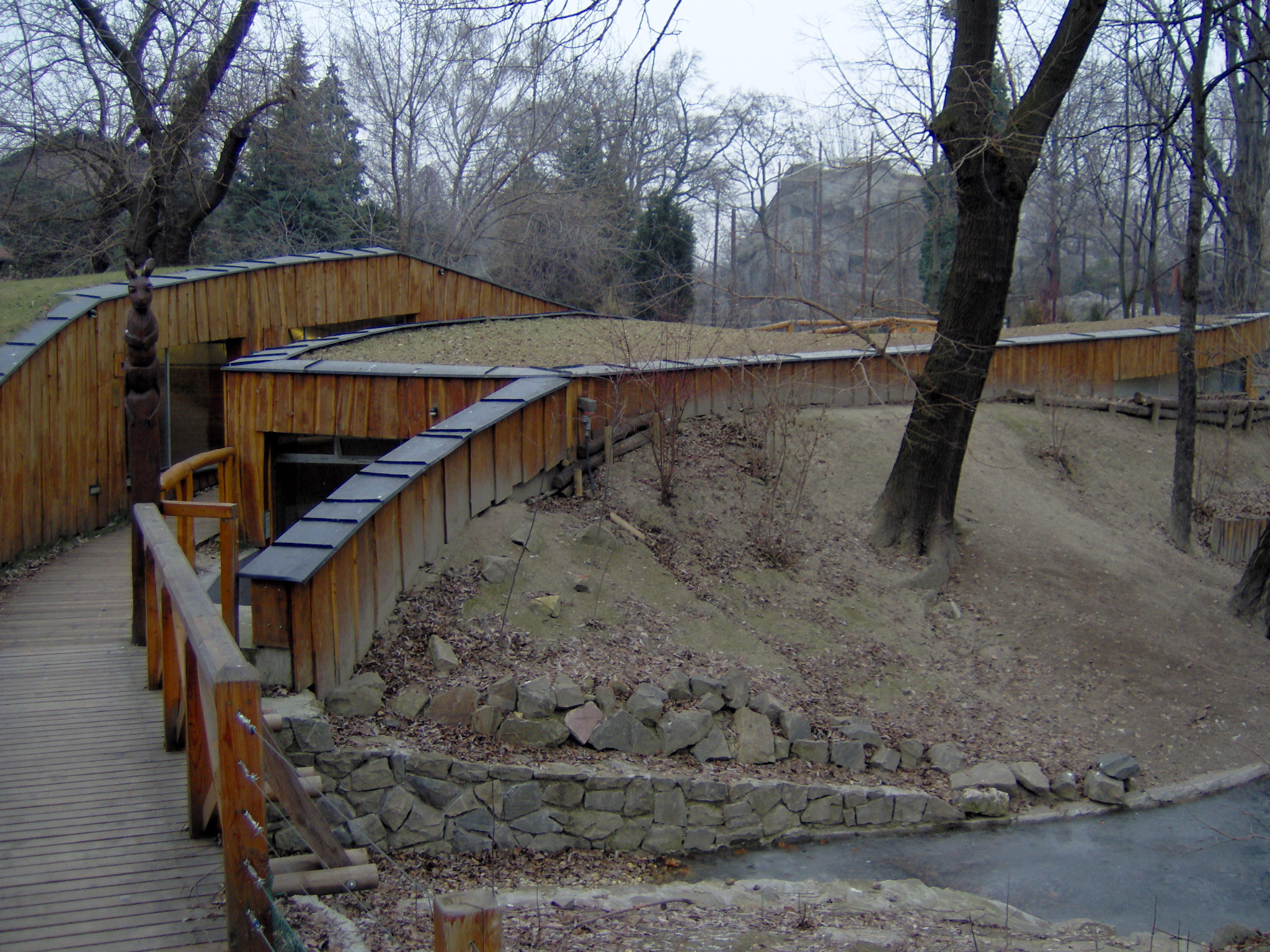 The Hillhouse, part of the Australia Zone at the Budapest Zoo